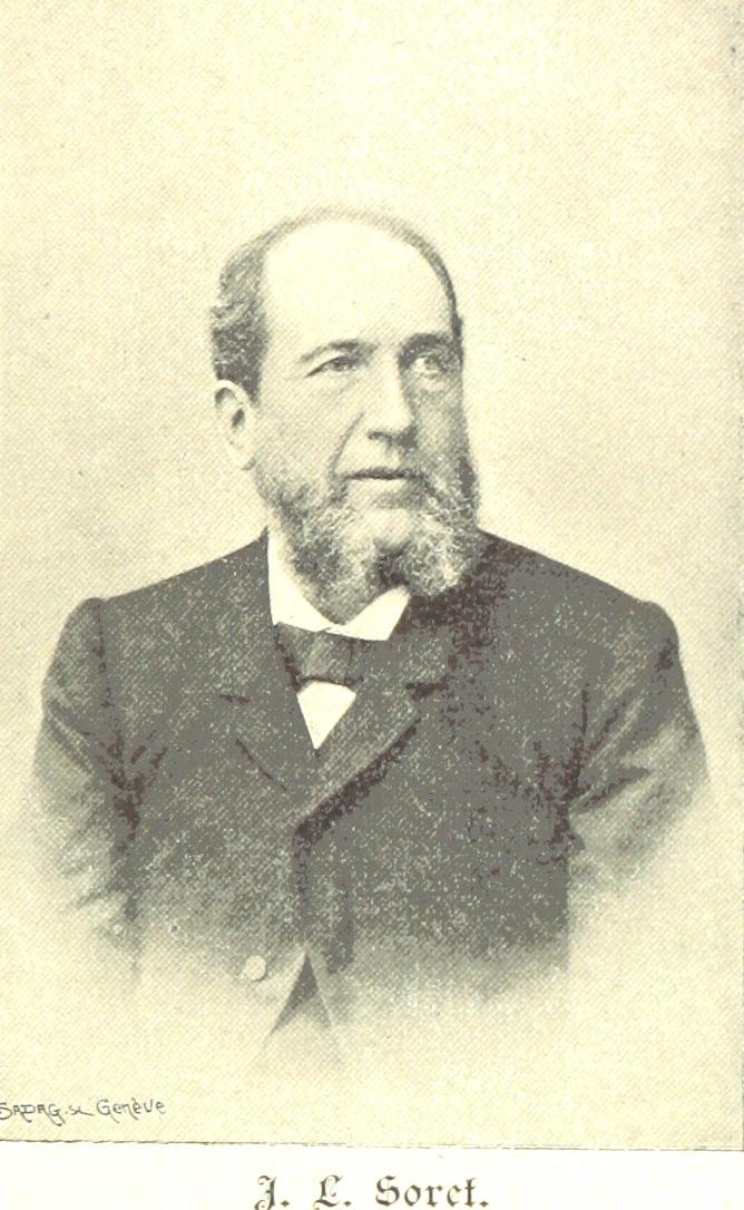 Jacques-Louis Soret Image taken from: Title: "Die Schweiz im neunzehnten Jahrhundert. Herausgegeben von schweizerischen Schriftstellern unter Leitung von P. Seippel" Author: SEIPPEL, Paul. Shelfmark: "British Library HMNTS 9305.h.2." Volume: 02 Page: 267 Place of Publishing: Lausanne Date of Publishing: 1899 Issuance: monographic Identifier: 003330970 Explore: Find this item in the British Library catalogue, 'Explore'. Download the PDF for this book (volume: 02) Image found on book scan 267 (NB not necessarily a page number) Download the OCR-derived text for this volume: (plain text) or (json) Click here to see all the illustrations in this book and click here to browse other illustrations published in books in the same year.